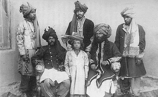 "Sir James Brown [the British Governor] met the Khan in a hall where the public were admitted. I happened to be one of the audience. When Sir James appeared on the platform the Khan made a rush forward to greet him. He was immediately repulsed by the Governor, who shouted, 'Stand back, you murderer,' and reviled him in severe language on the tragedy he was guilty of [the execution of his Prime Minister and son]. The Khan was afterwards consigned to a Fort for safe keeping. He died a few years later." (Forty Years, pg. 34)